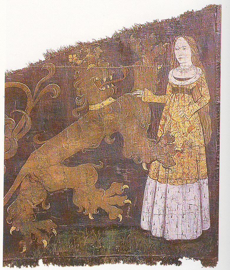 Flag of the City of Ghent, formerly at the Bijlokemuseum, Ghent